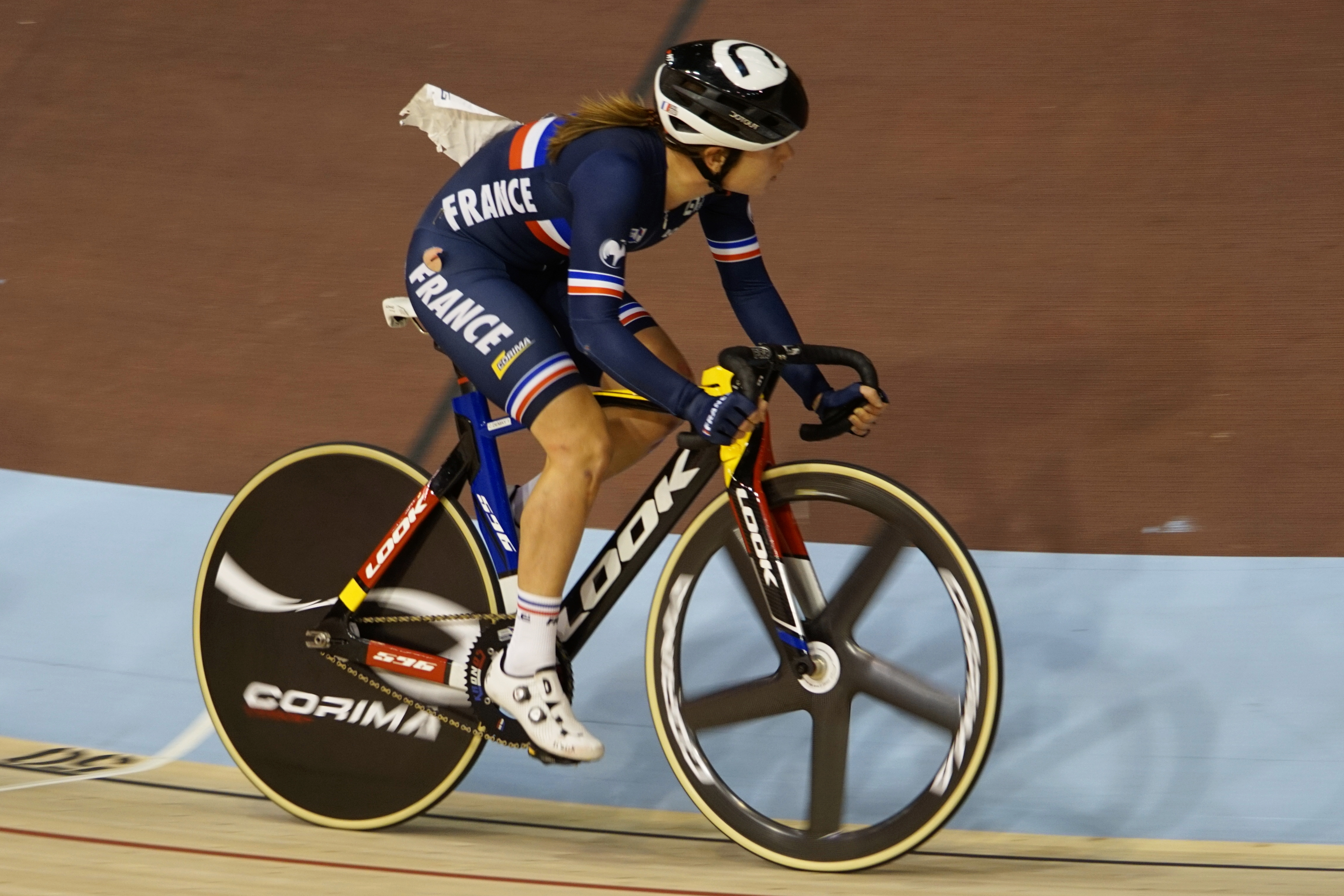 2017 UEC Track Elite European Championships - Women's Points Race